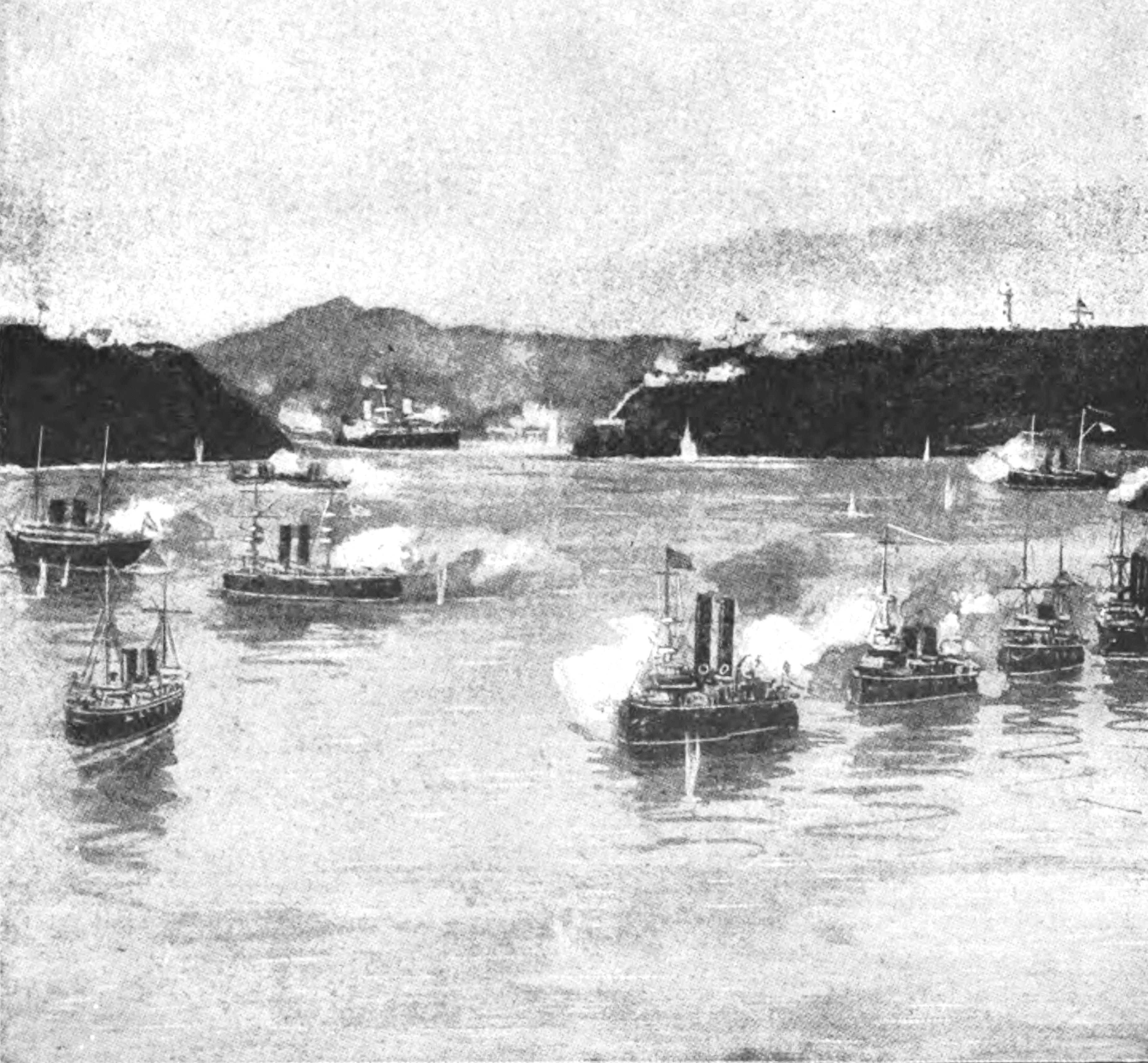 Somewhat fictious painting depicting the beginning of the Battle of Santiago de Cuba, a naval engagement between the U.S. Flying Squadron and U.S. North Atlantic Squadron against the Spanish Navy 2d Squadron on July 3, 1898. The naval battle was part of the Spanish-American War, and resulted in the destruction of all seven Spanish ships. There was little damage to American ships, which were three times larger, significantly outgunned the Spanish, had better trained crews, and were in better repair.